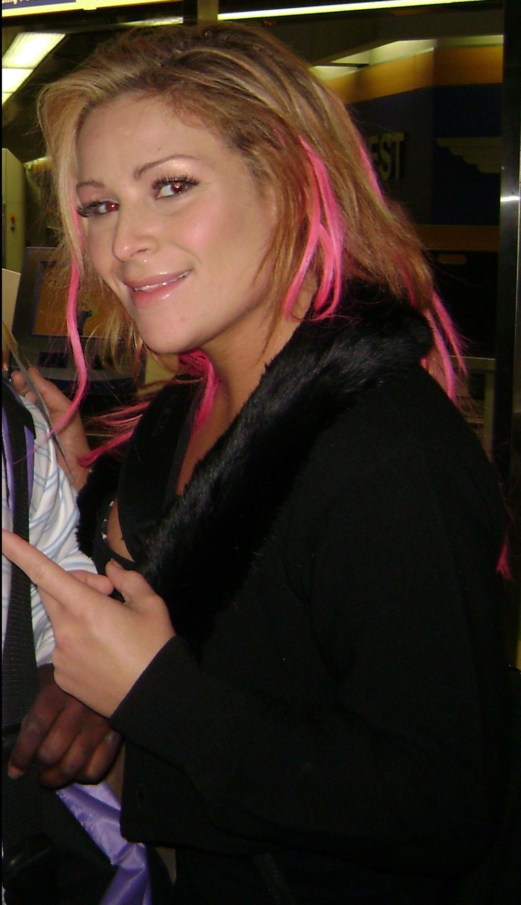 This is a picture of Natylia (real name Natalya Neidhart) when I met her at the airport after an ECW taping. I have cropped myself out of the pic.